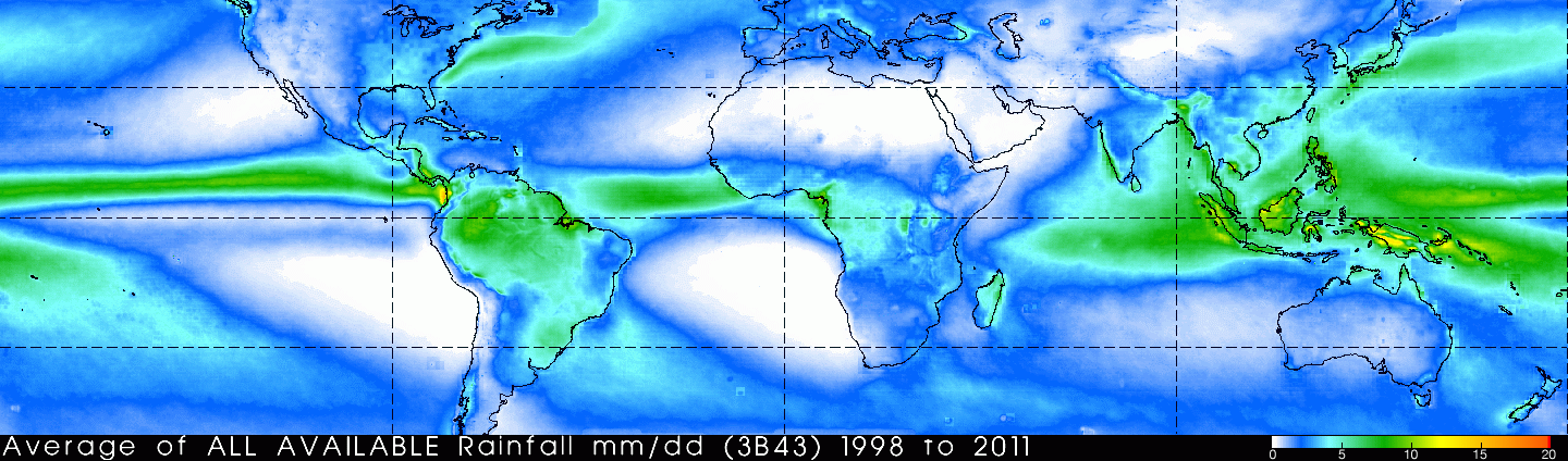 TRMM's long term rainfall data gives scientists a better understanding of global rainfall patterns. Shown here is TRMM data merged with other satellites' rain data from 40N to 40S latitude. The colors show the average of all the monthly rain averages from 1998 to 2010